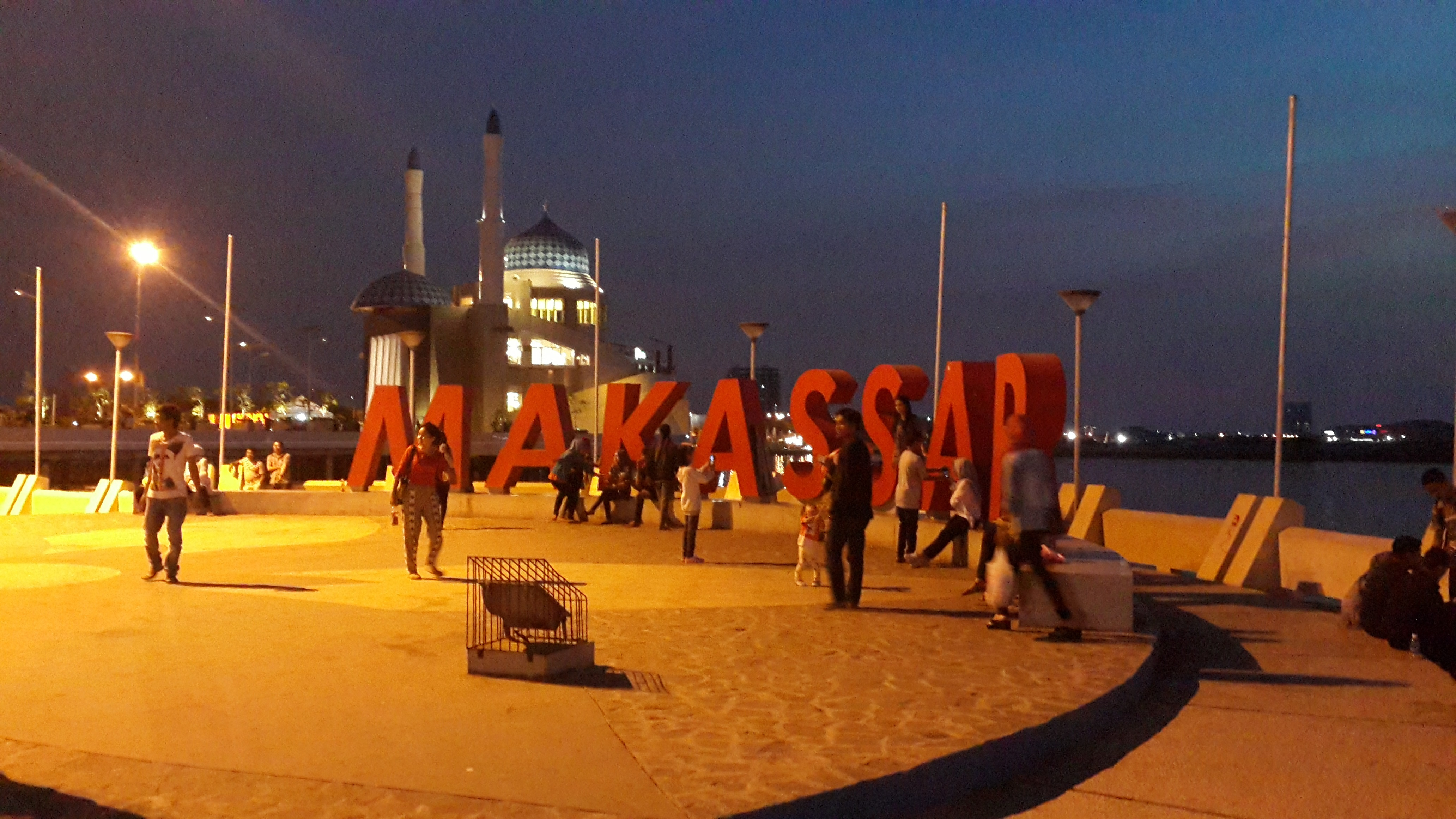 The seafront at Makassar, Indonesia